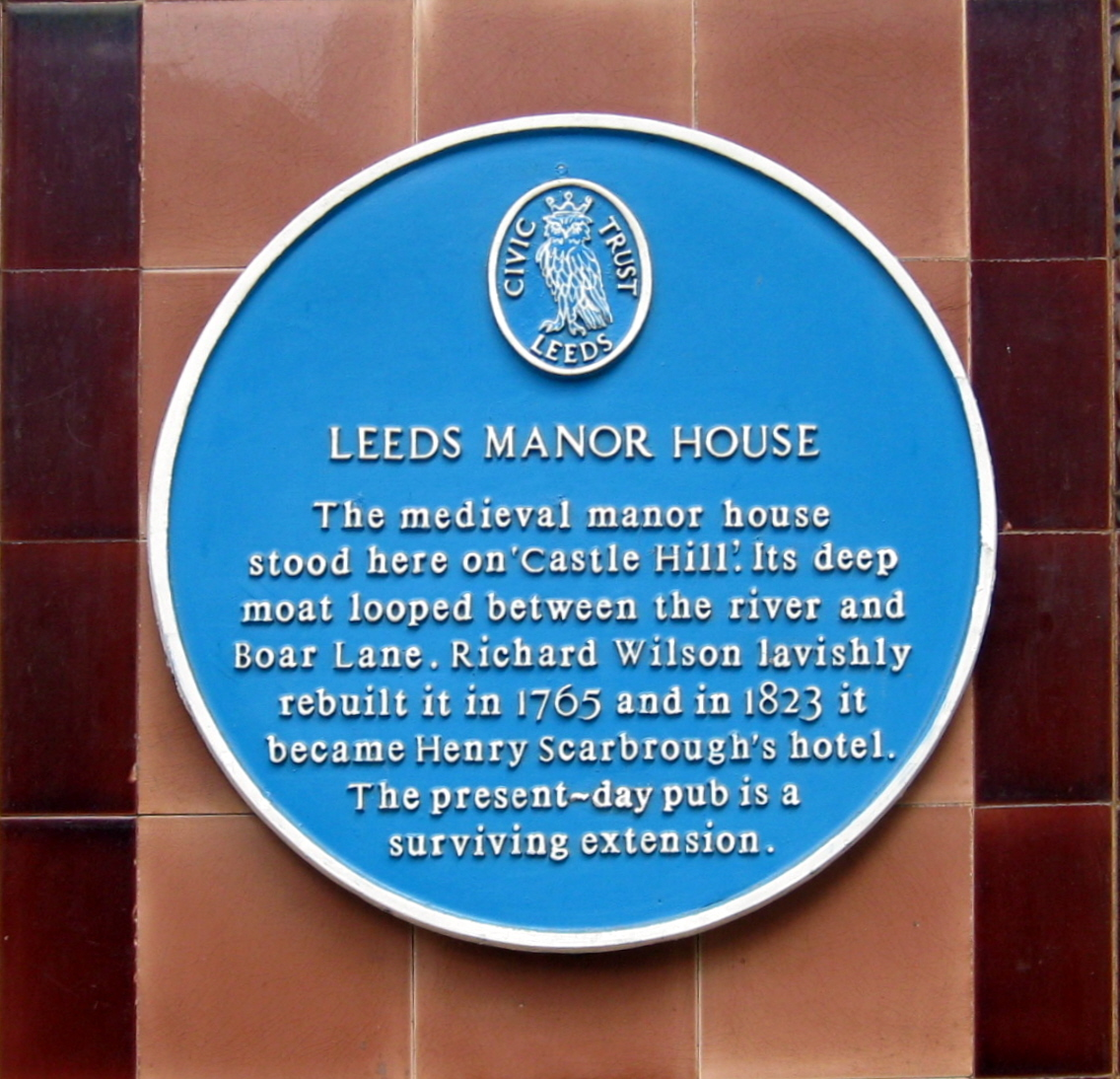 Blue plaque on the site of Leeds Manor House, now the Scarbrough Hotel, Bishopsgate Street, Leeds